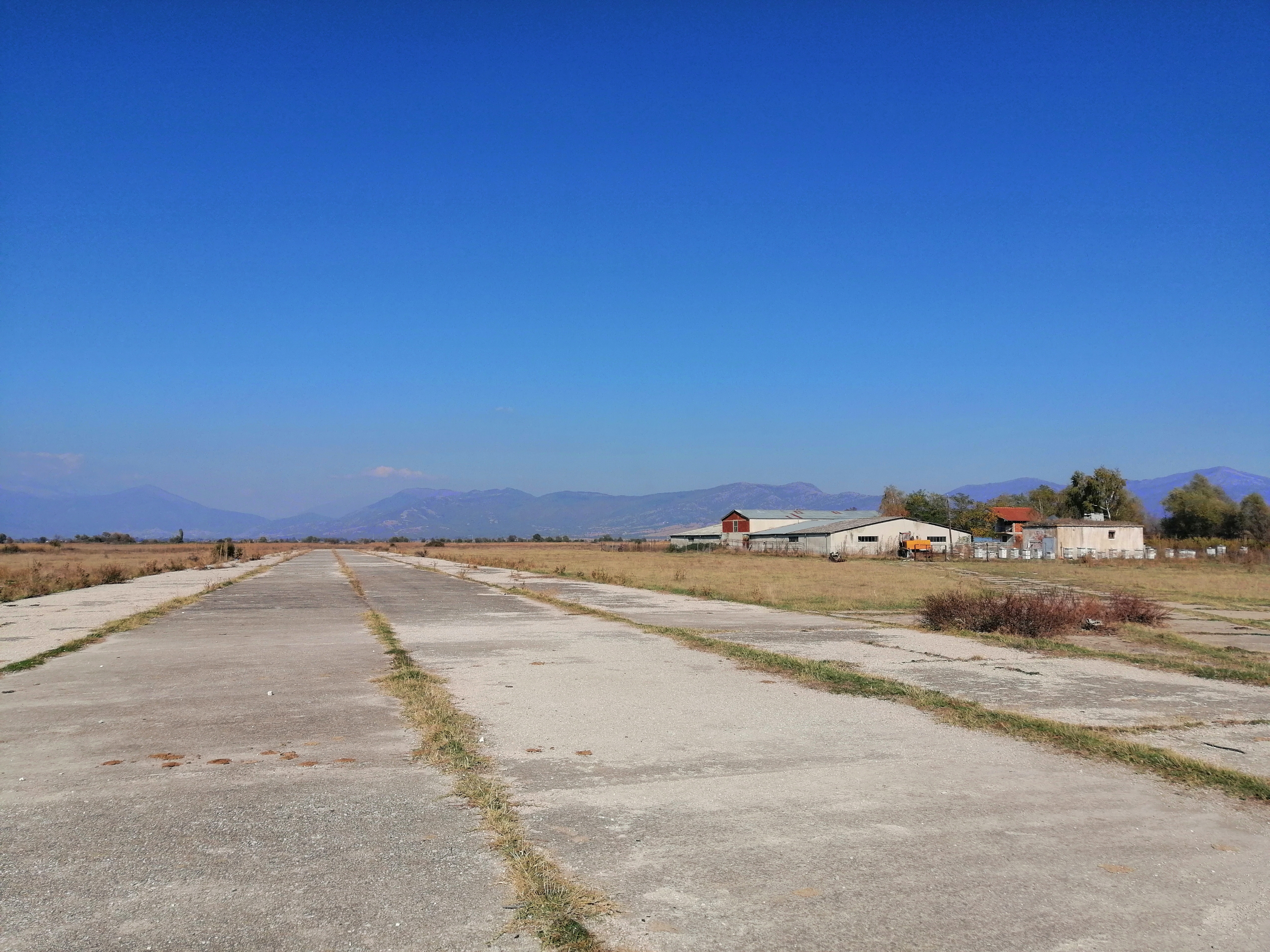 View of the Airport Sarandinovo